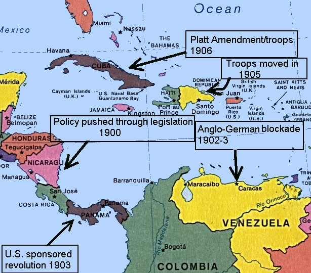 Americas – Middle America: CIA, original political map from Perry-Castañeda Library Map Collection; University of Texas Library Online